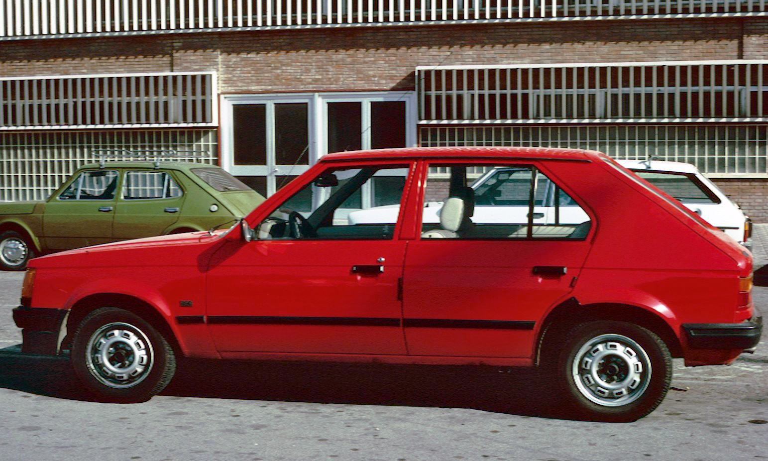 Talbot Horizon in profile in Madrid